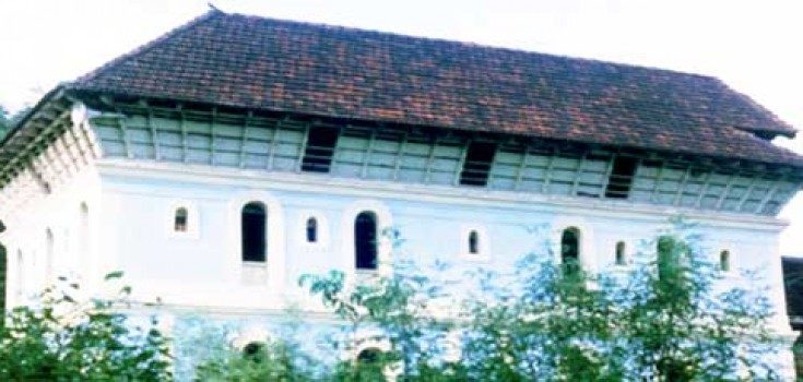 PAZHANGADI MOSQUE